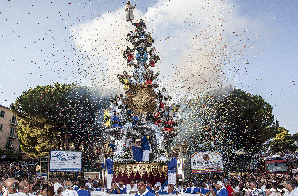 La partenza della Vara da piazza Castronovo